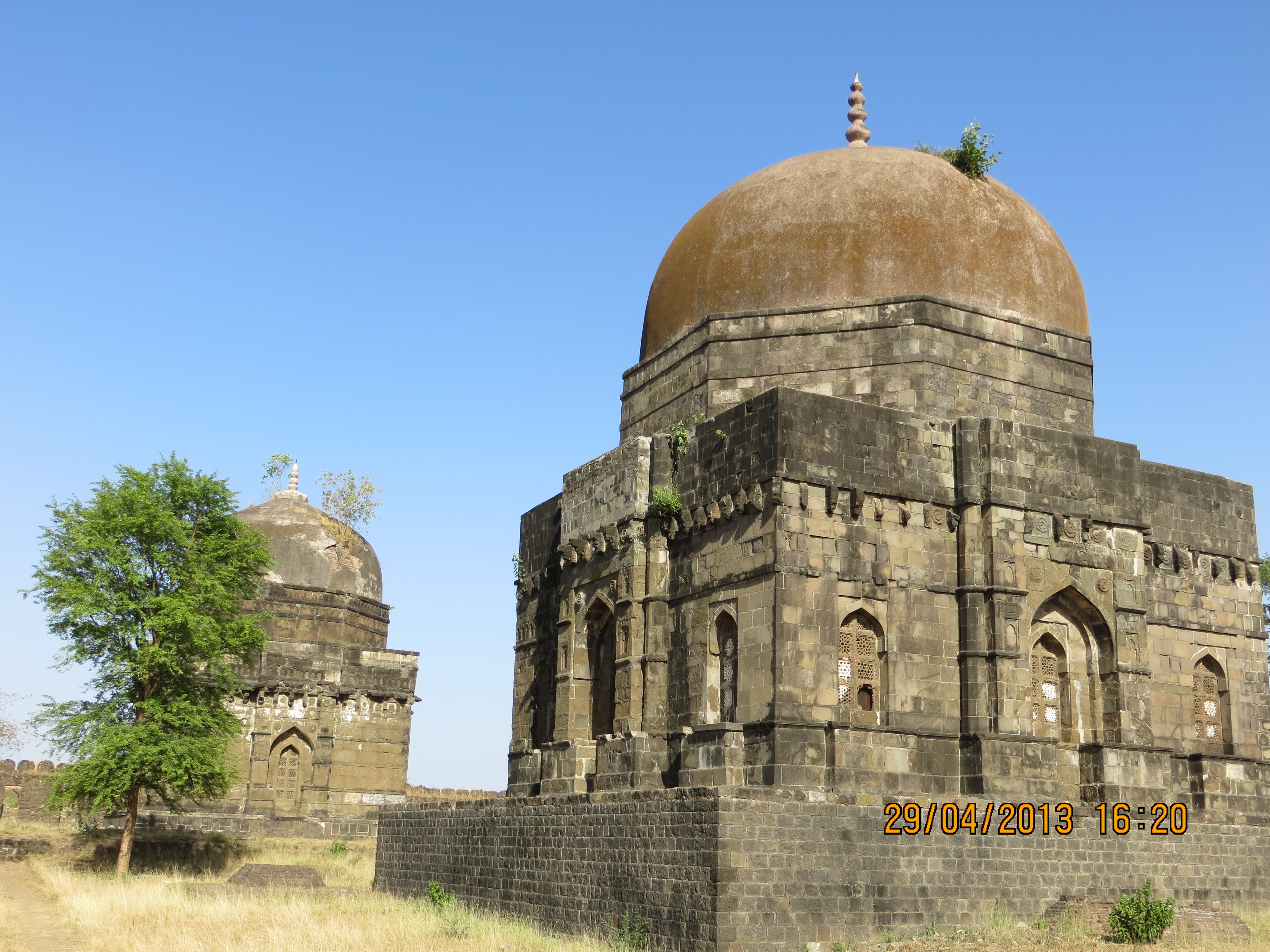 Tomb of Nadir Shah & compound